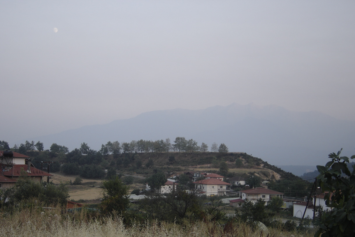 View from Vria with Pieria mountains